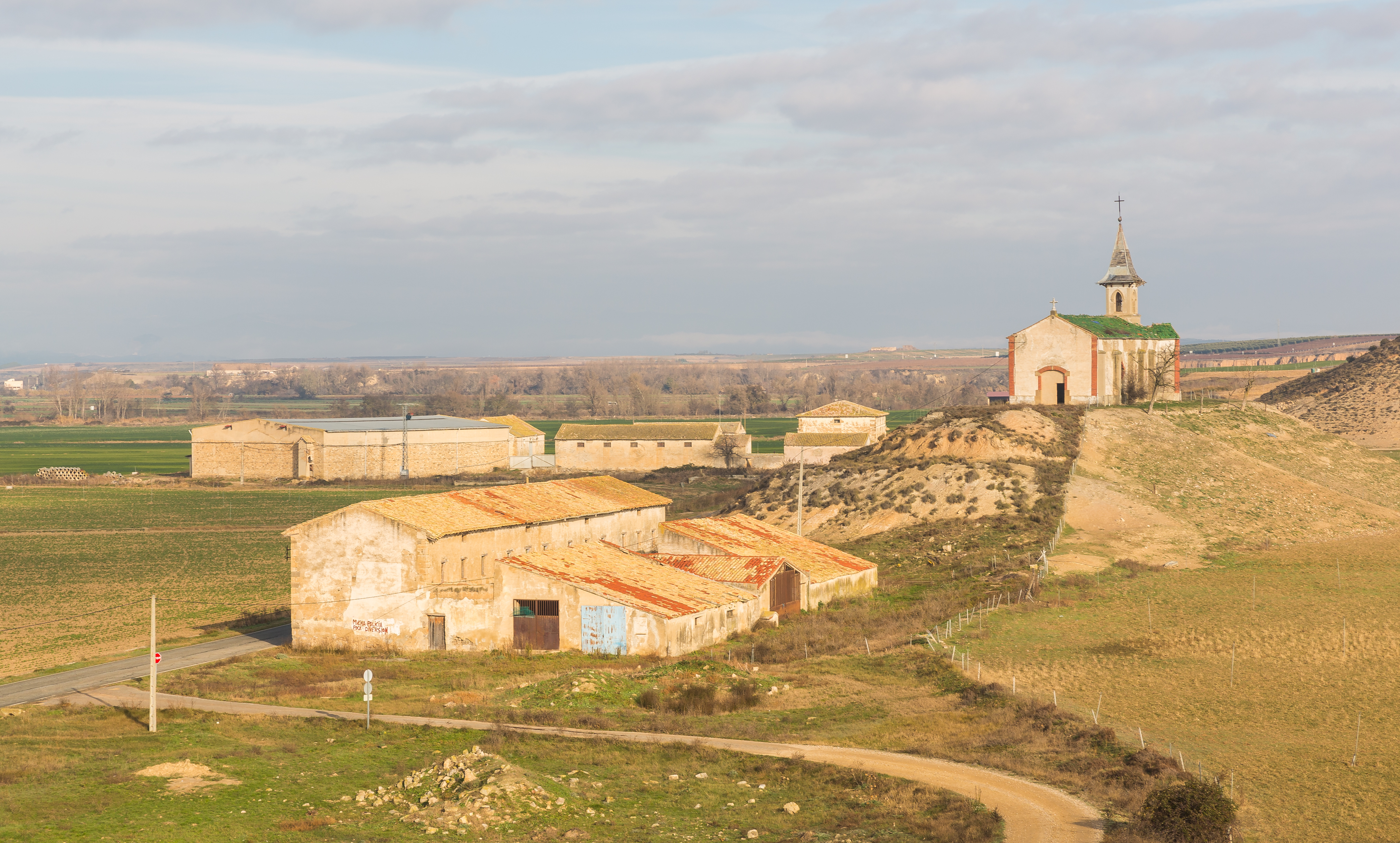 Vergalijo, Navarre, Spain